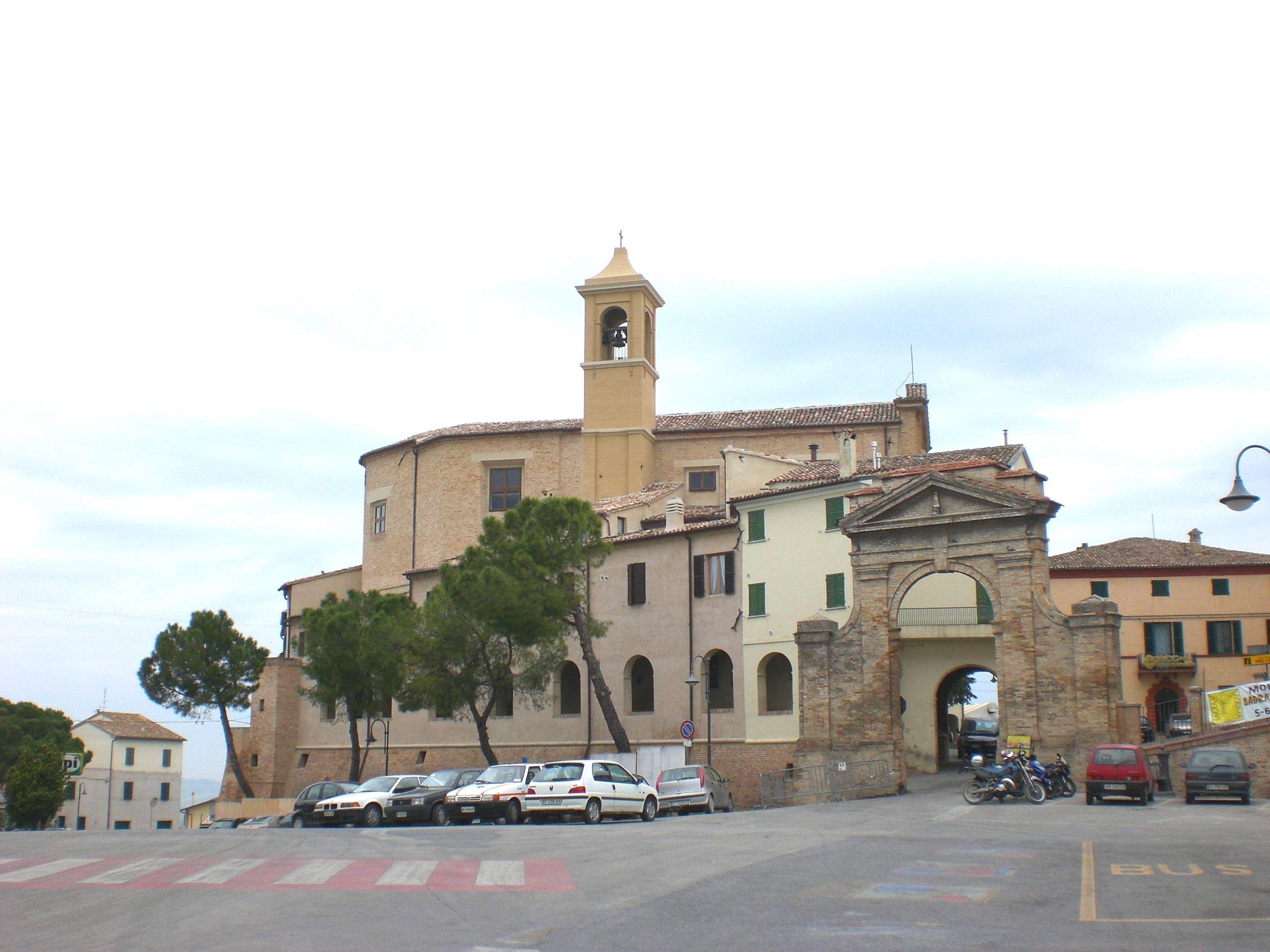 Morro d'Alba